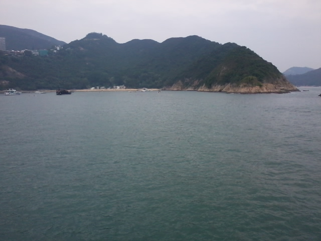 香港島 南區zh:淺水灣對出海面zh-yue:遊船河景觀, Boat tour view Repluse Bay, Southern District, Hong Kong